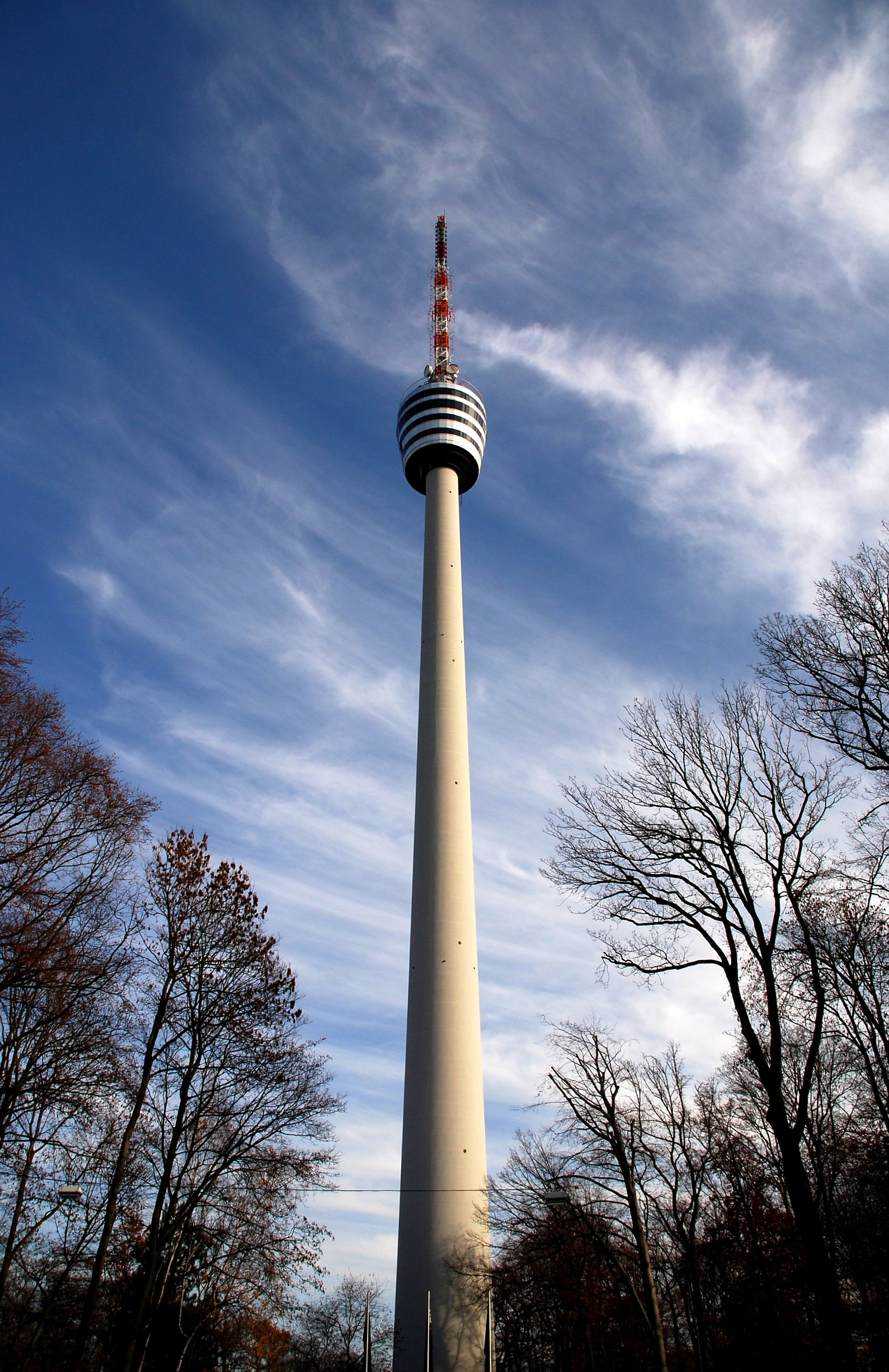 Television Tower Stuttgart